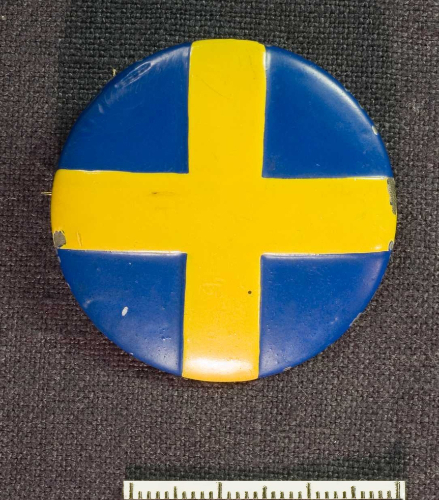 Landstormsmärke m/05